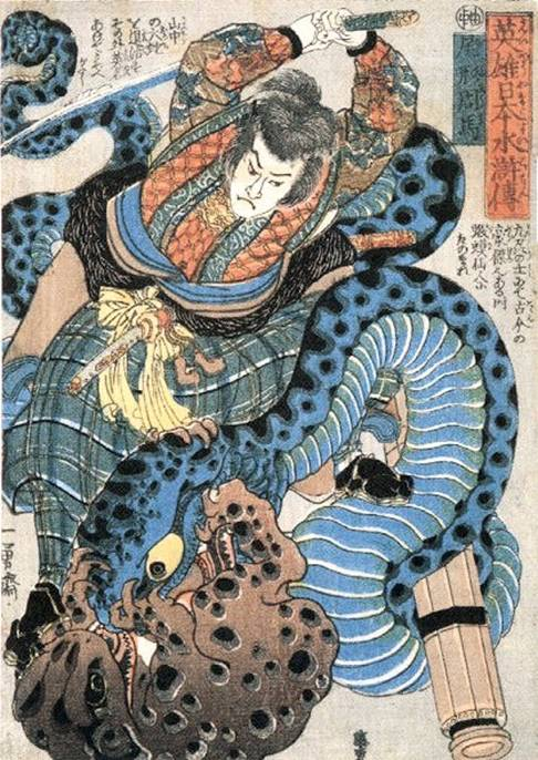 From Suikoden of Japanese Heroes (Yeiyû Yamato Suikoden, 英雄日本水滸伝) Publisher: Kujioka-ya Keijirô c. 1843 Scene: Ogata Shuma (later Jiraiya) raising his sword to kill a python attacking a large toad, Jiraiya is portrayed as being a ninja.